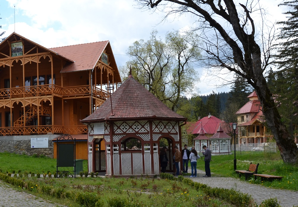 Fountain nr. 6 at Borsec Bath